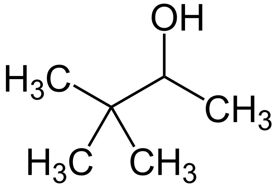 A structural drawing of a hexanol isomer.